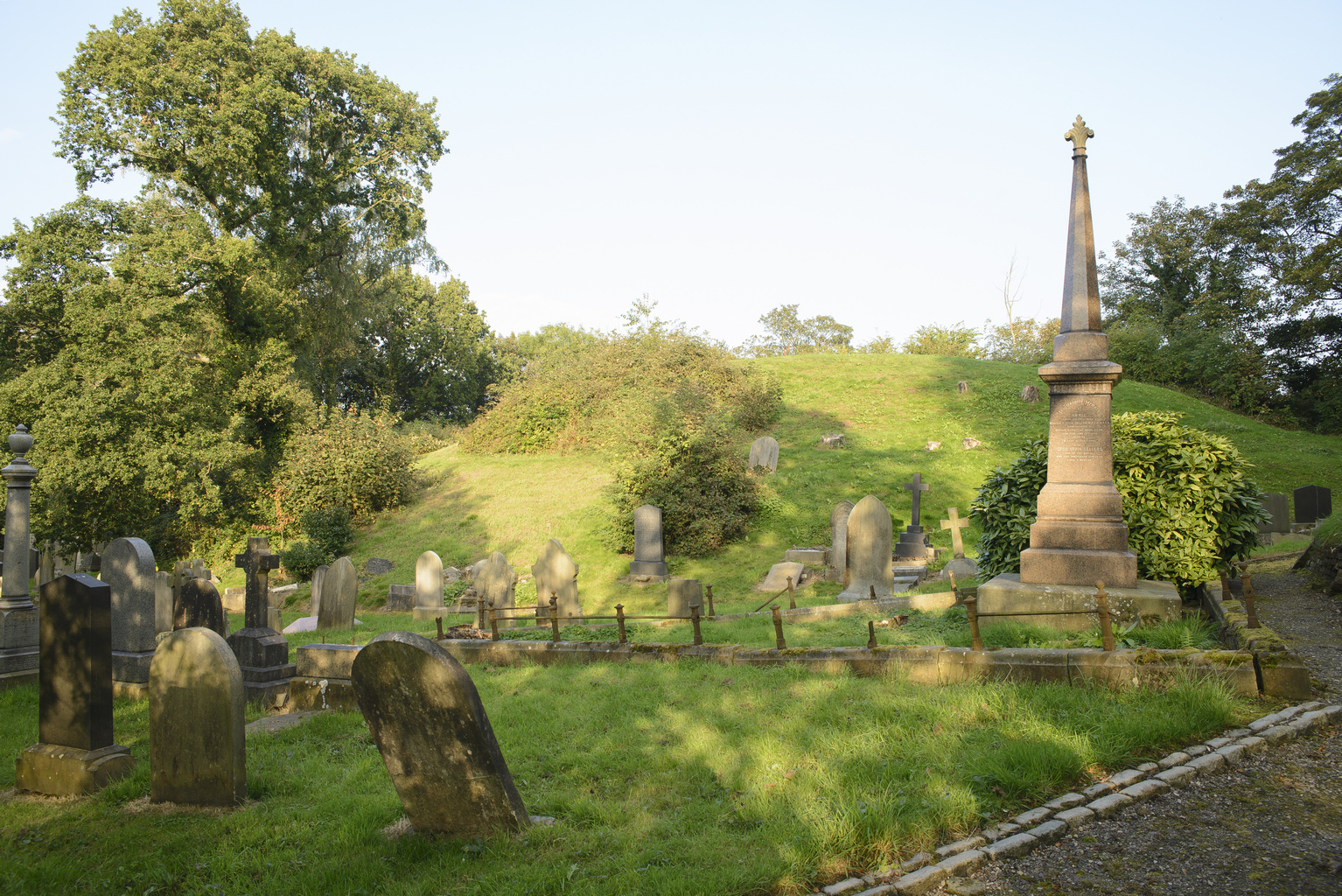 Castle Hill motte, Penwortham Wikidata has entry Q17674842 with data related to this monument.